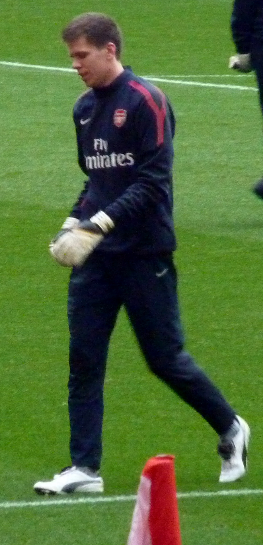 Wojciech Szczęsny playing for Arsenal